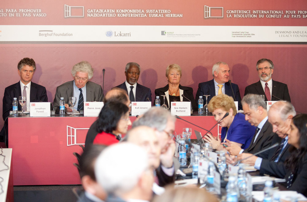 International personalities at the International Conference to Promote the Resolution of the Conflict in the Basque Country (Donostia-San Sebastián, 17 October 2011